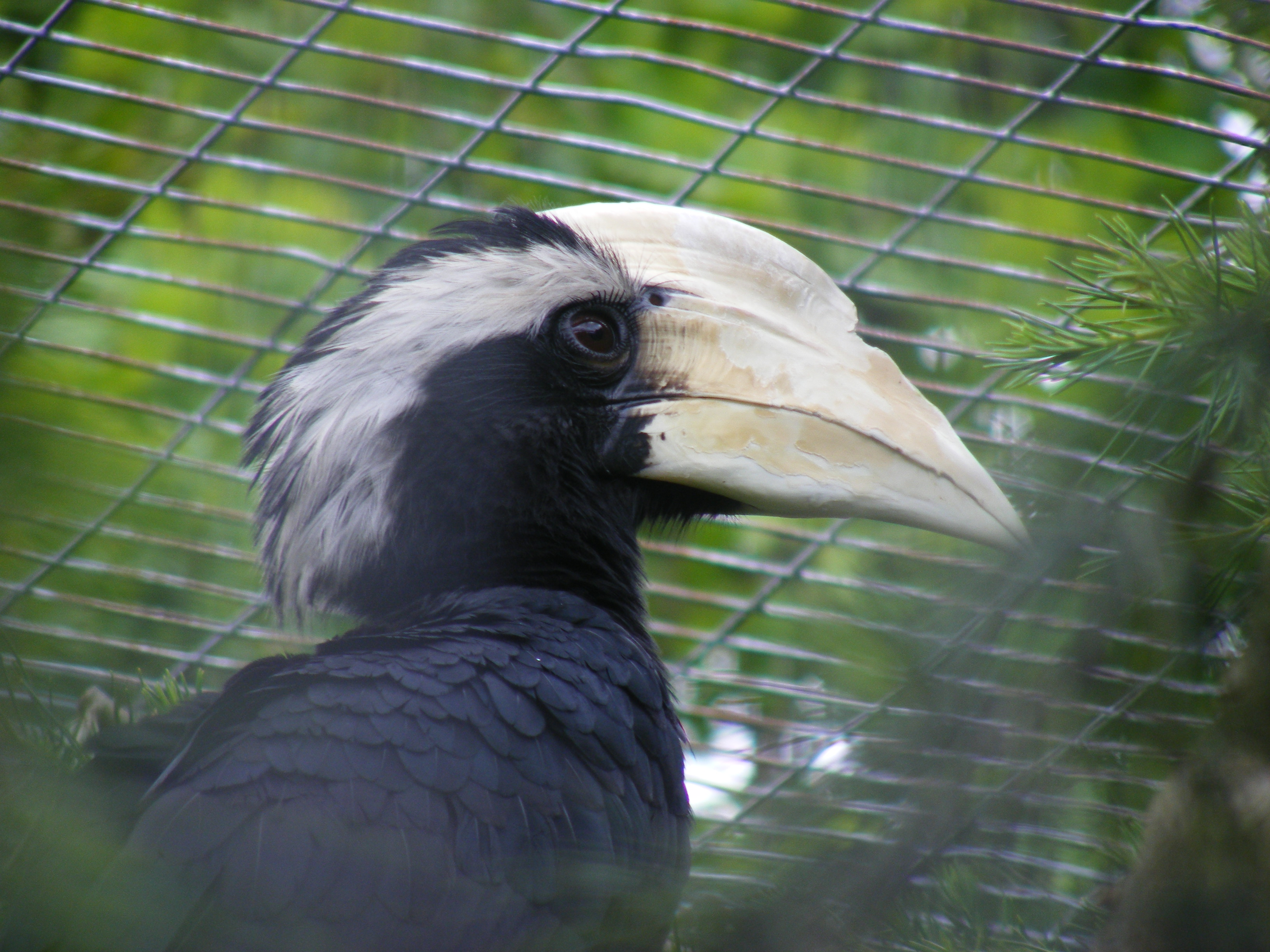 Black hornbill (male) - taken at Birdworld on 1st July 2011